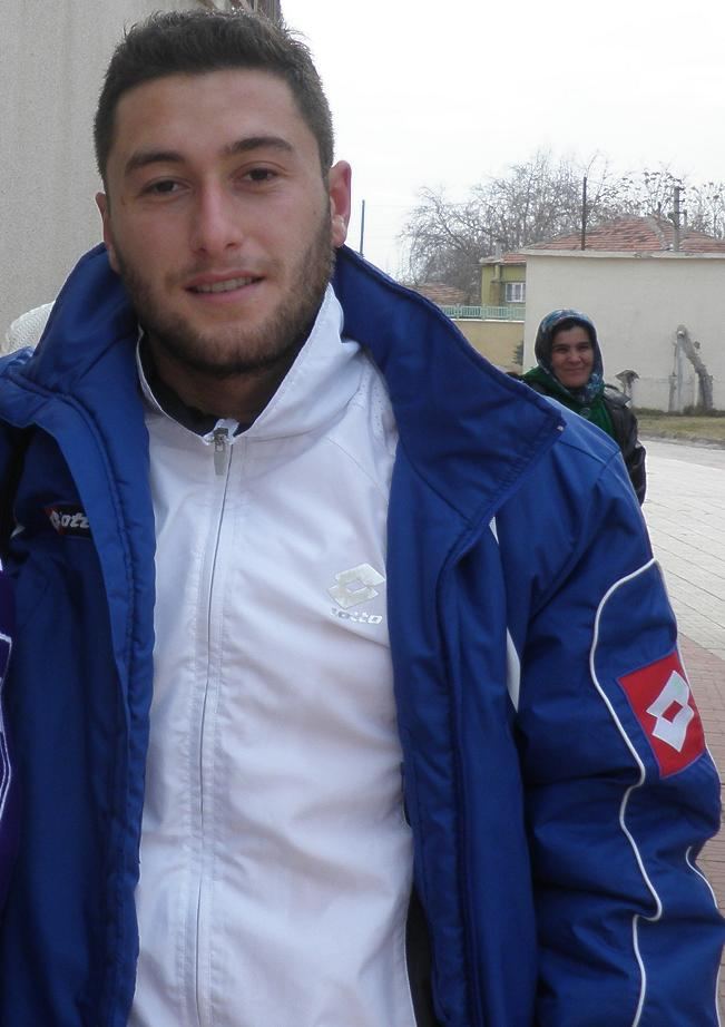 Artun Akçakın, is a Turkish professional footballer.